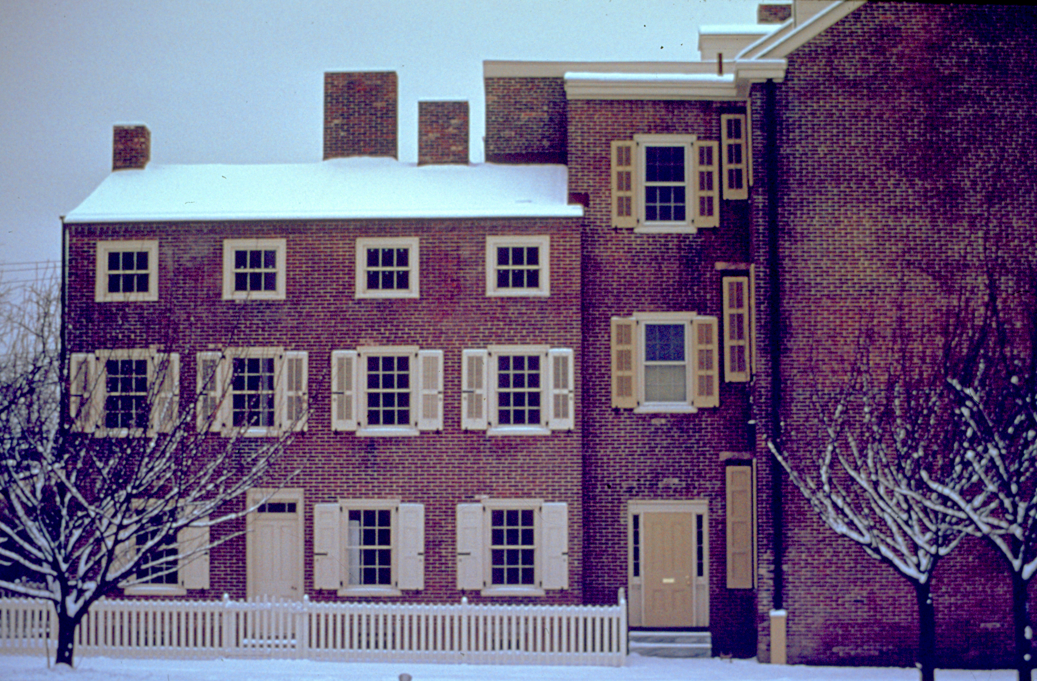 Edgar Allan Poe National Historic Site, Philadelphia, USA - Historic image of the building